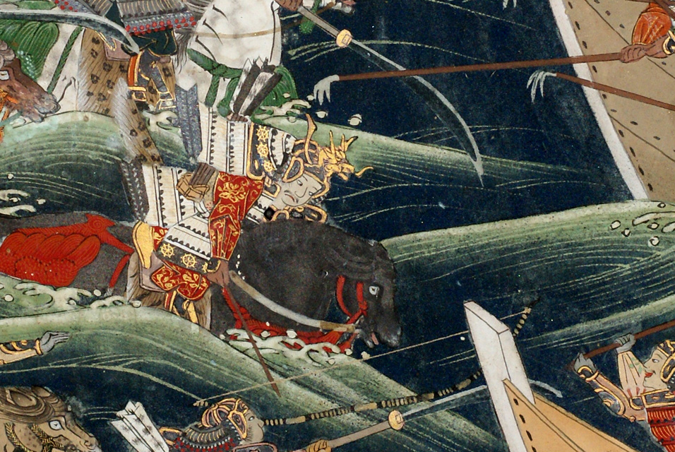 Screens with Scenes from the Tales of Heike (detail), c. 1650-1700. Ink, gold, colors on paper.